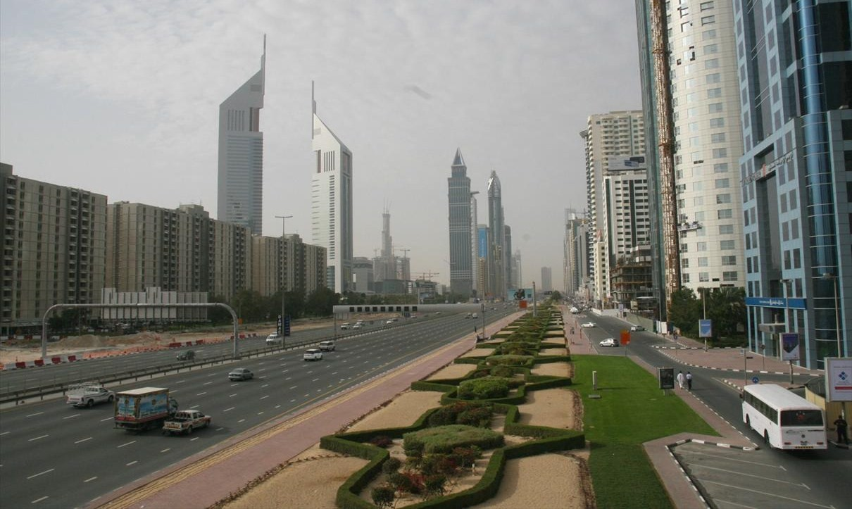 This is a photo showing Sheikh Zayed Road in Dubai, United Arab Emirates on 2 March 2007.